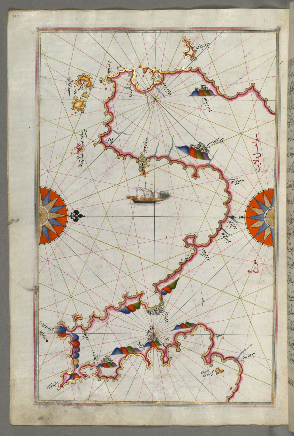 This folio from Walters manuscript W.658 contains a map of Messiniakos Bay (Bay of Messini).